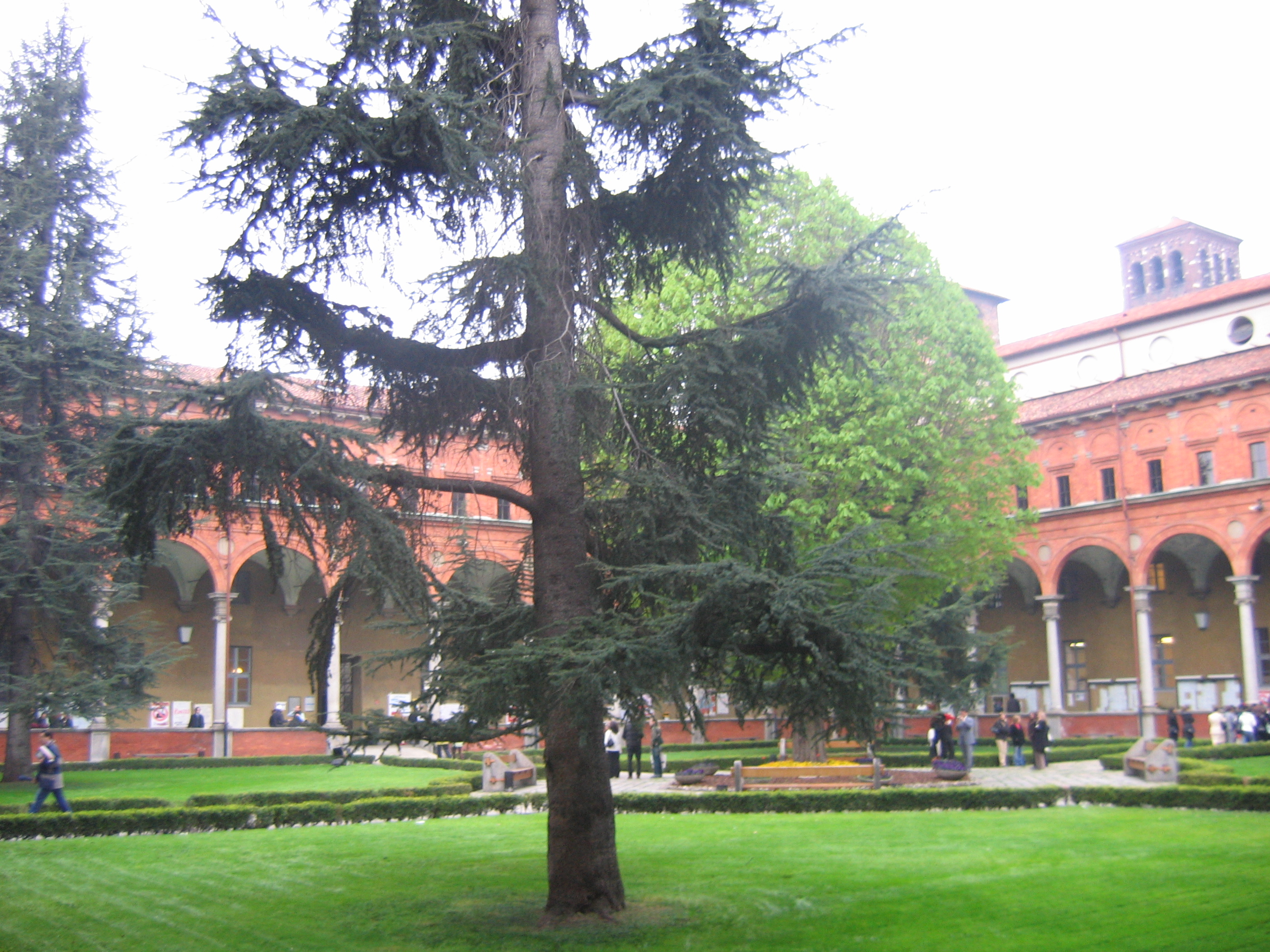 One of the inner yards (a former cloister) of Università Cattolica in Milan.